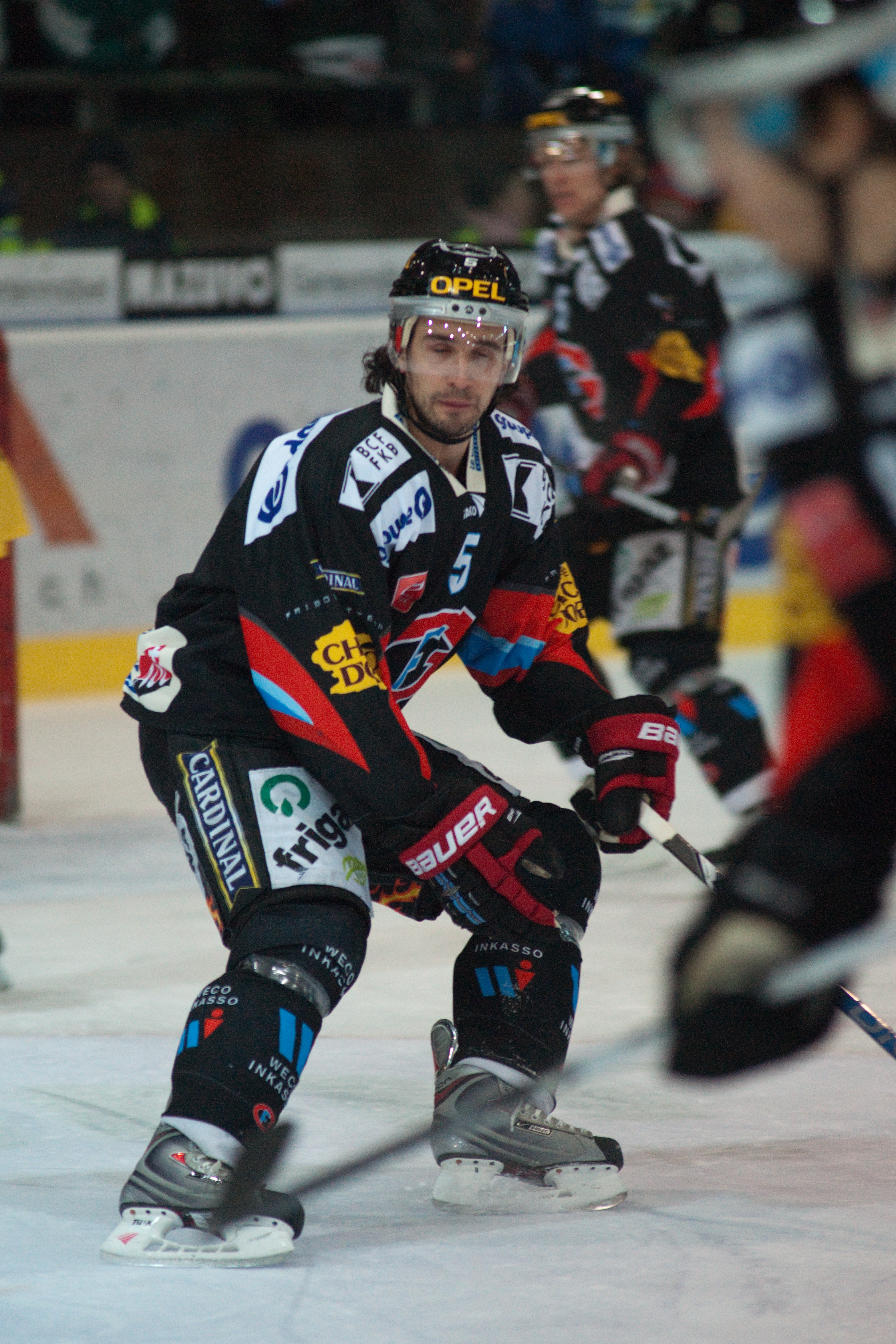 The making of this document was supported by Wikimedia CH.(Submit your project!) For all the files concerned, please see the category Supported by Wikimedia CH.